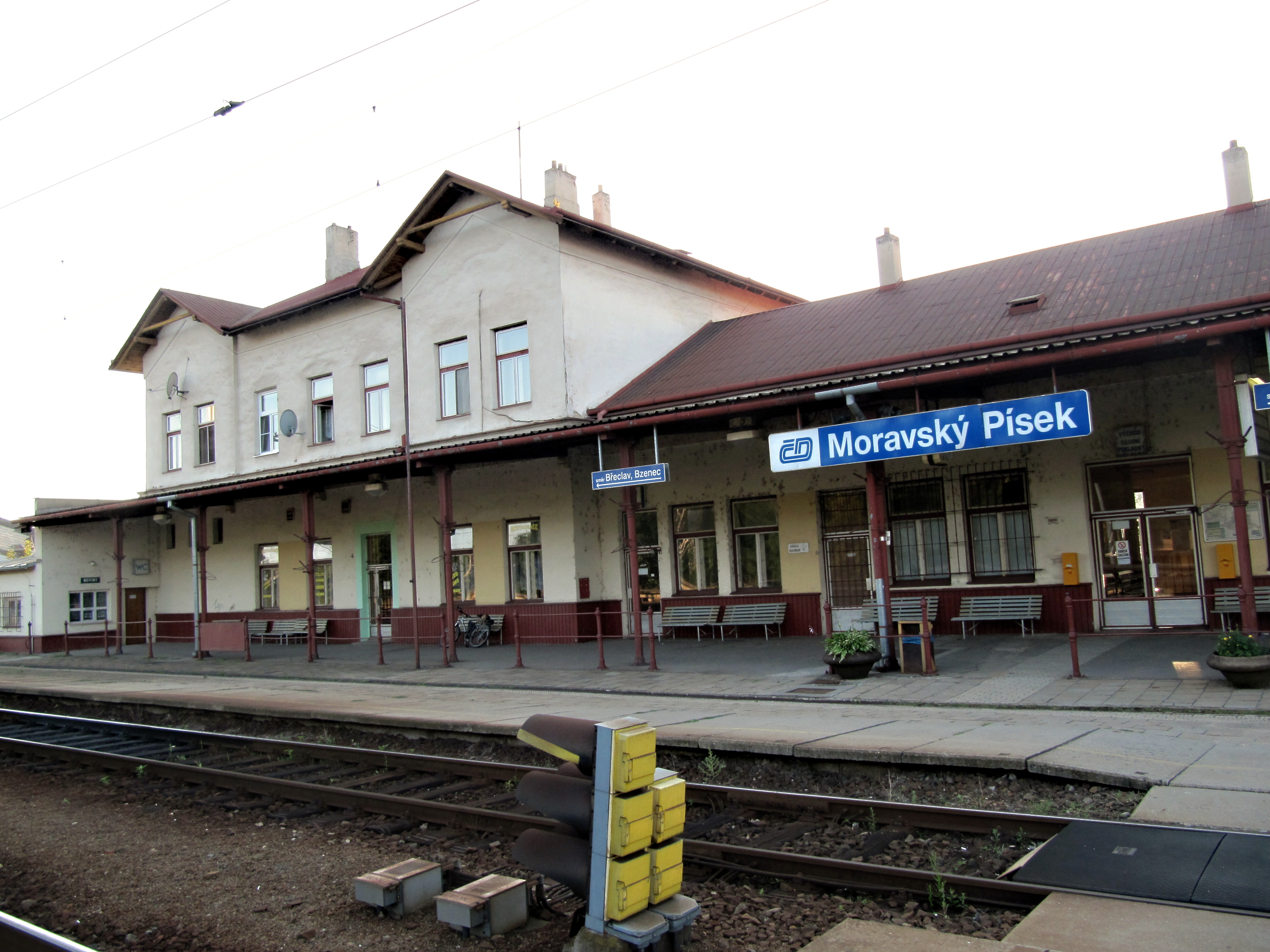 Moravský Písek in Hodonín District, Czech Republic. Train station. This photograph was taken within the scope of the third year of the 'Czech Municipalities Photographs' grant.